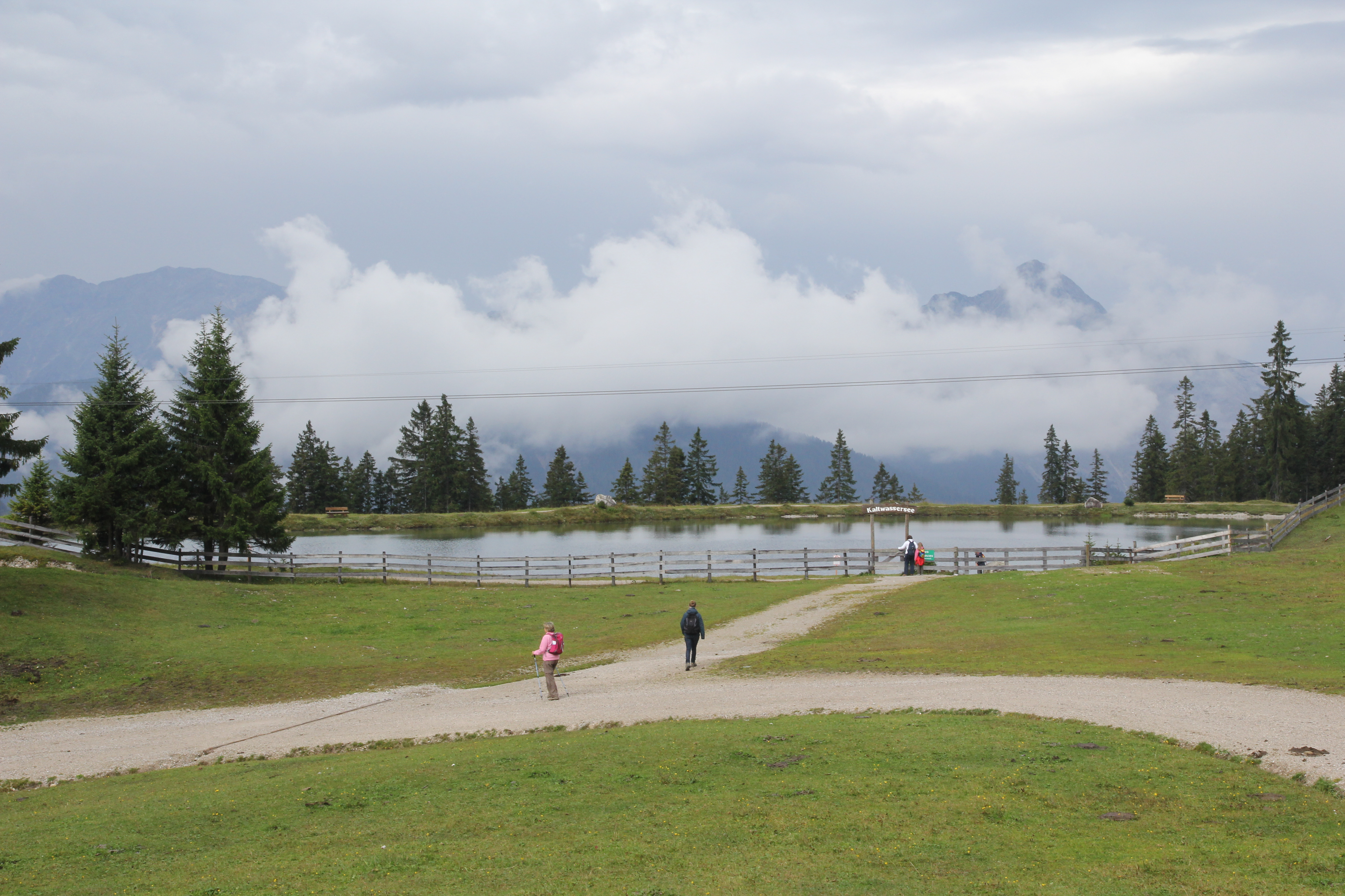 The Kaltwassersee, a reservoir above Seefeld in Tirol, Austria, supplying water to the snowmaking equipment on the Rosshutte ski area.